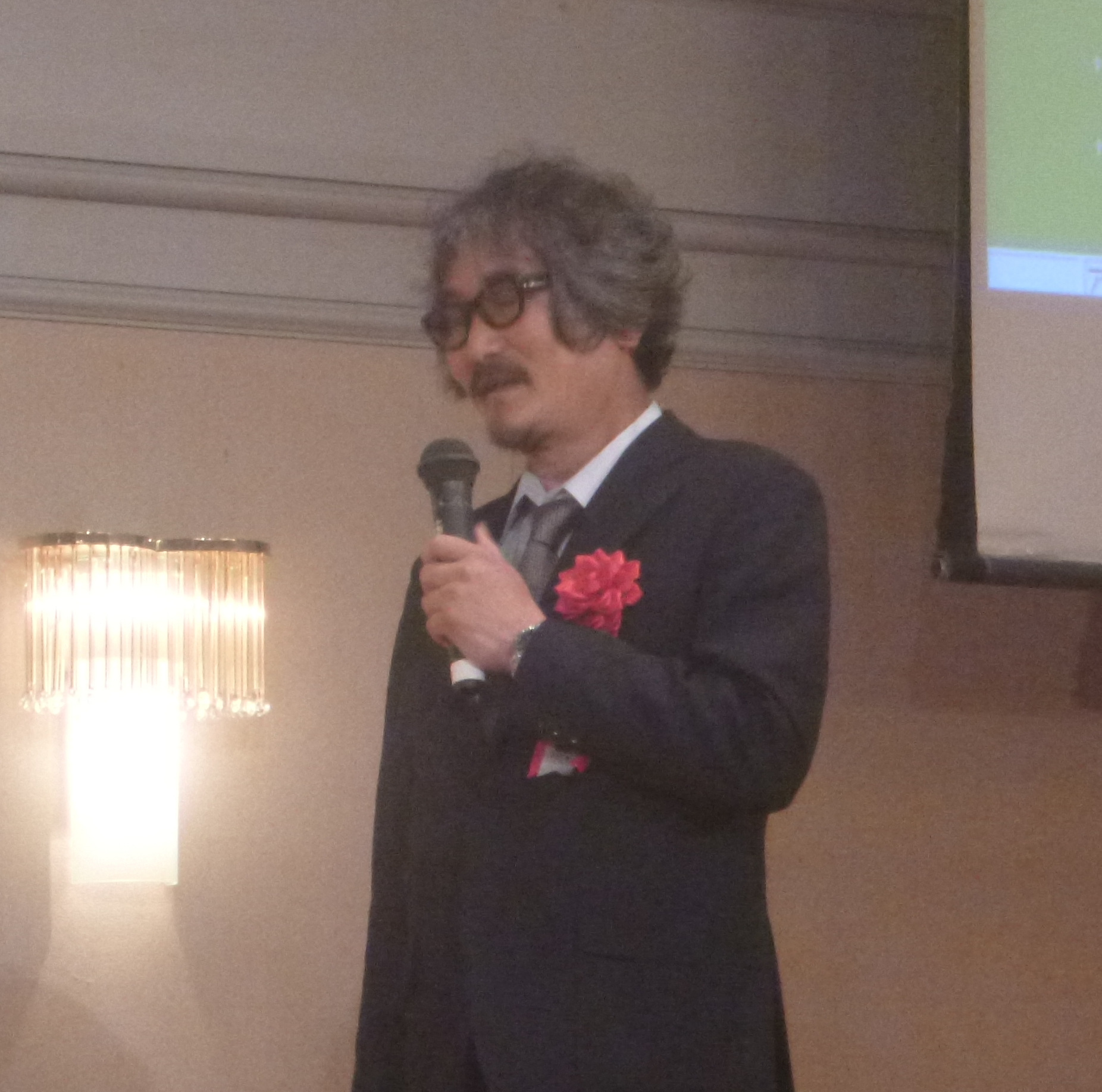 South Korean-Japanese go player Cho Chikun (Jo Chi-hun) making comments on the exhibition match of World Go Festival in Takaraduka, Hyogo, Japan.